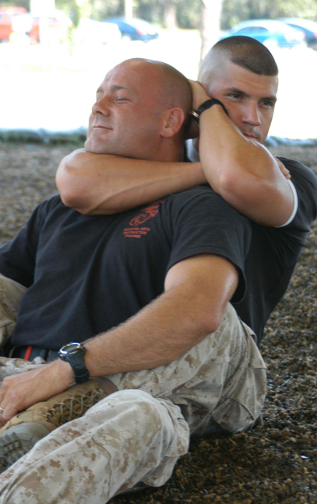 MCMAP Instructors demonstrate a rear naked choke.